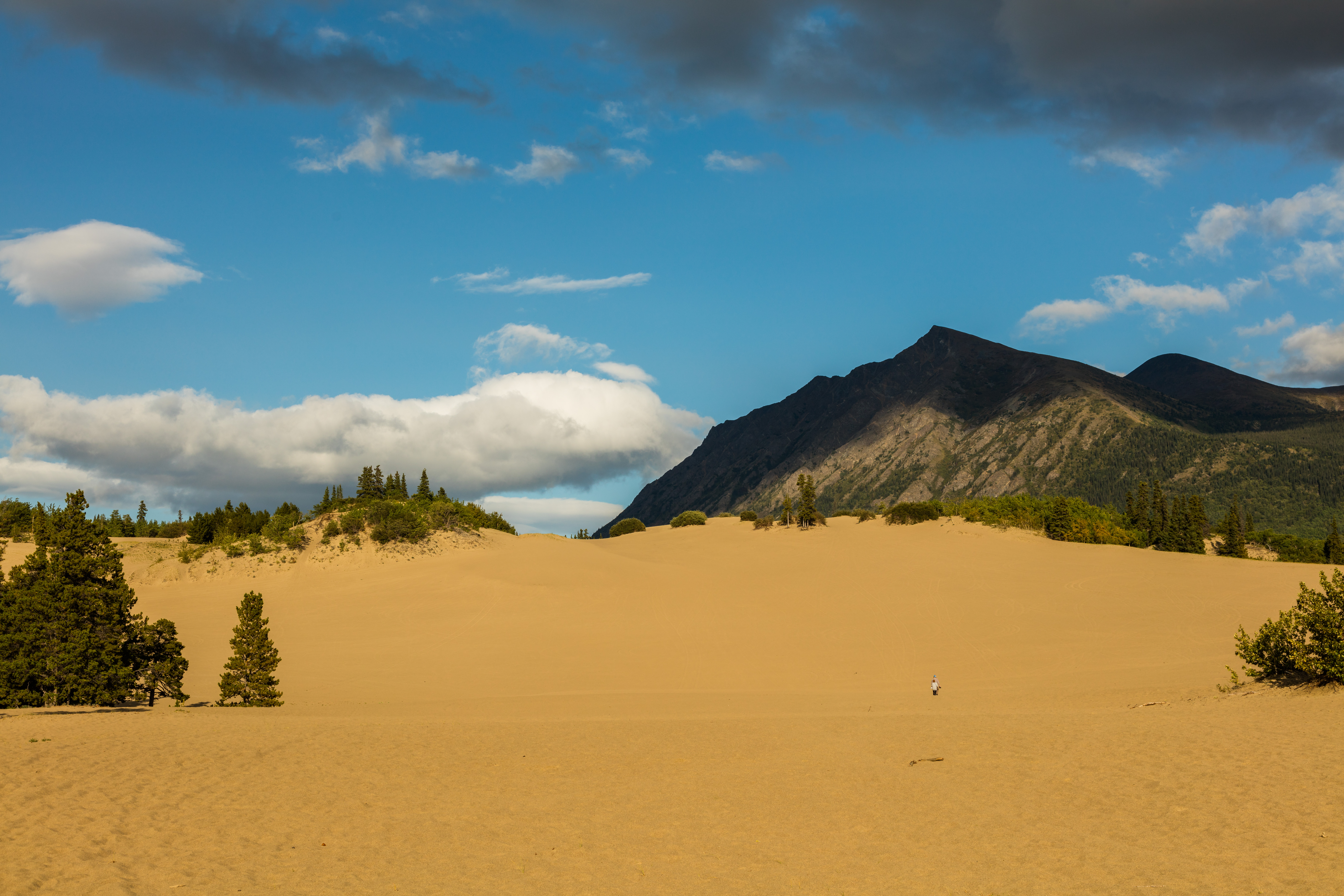 Carcross Desert, Yukon, Canada